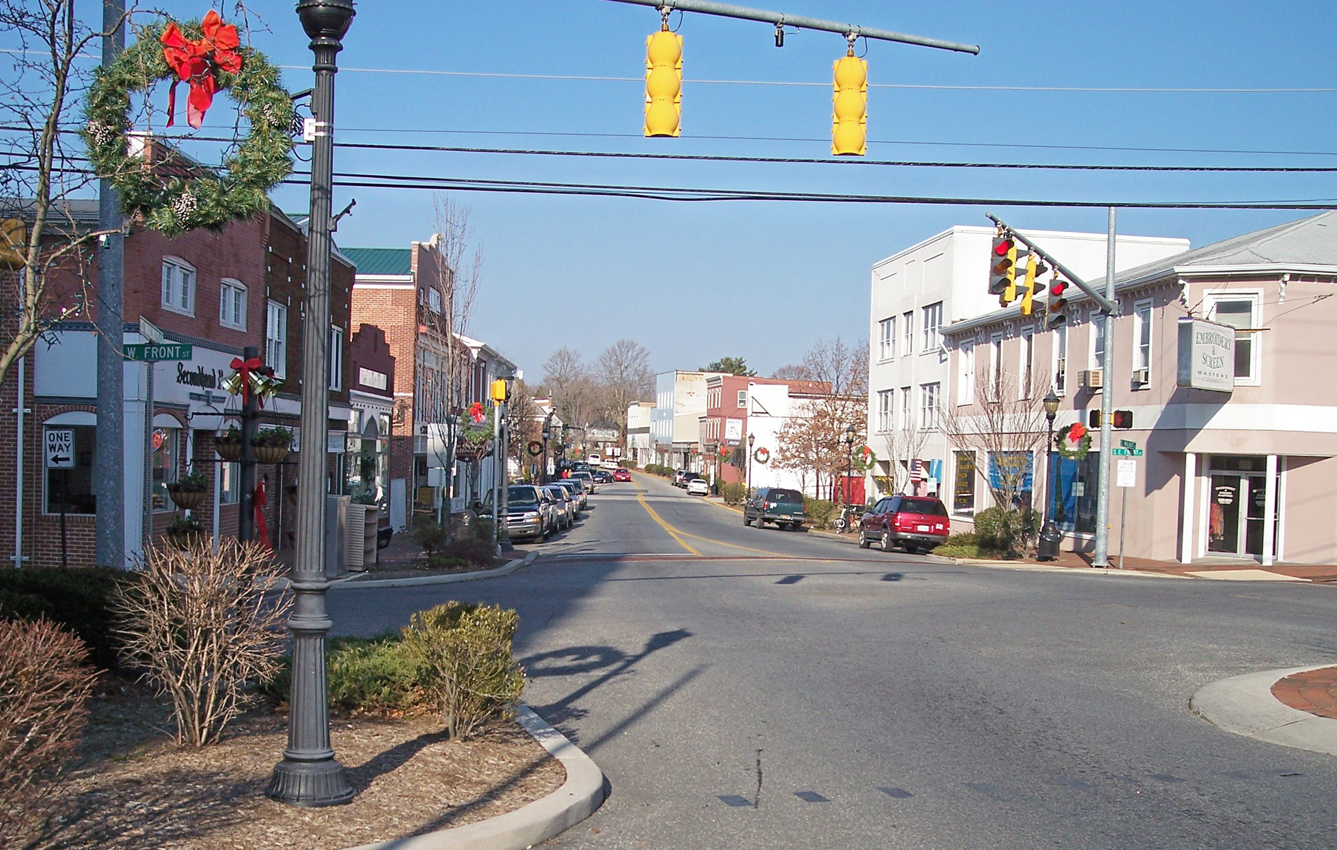 Walnut Street in Milford, Delaware, as viewed from the intersection of Southeast Front Street and Southwest Front Street